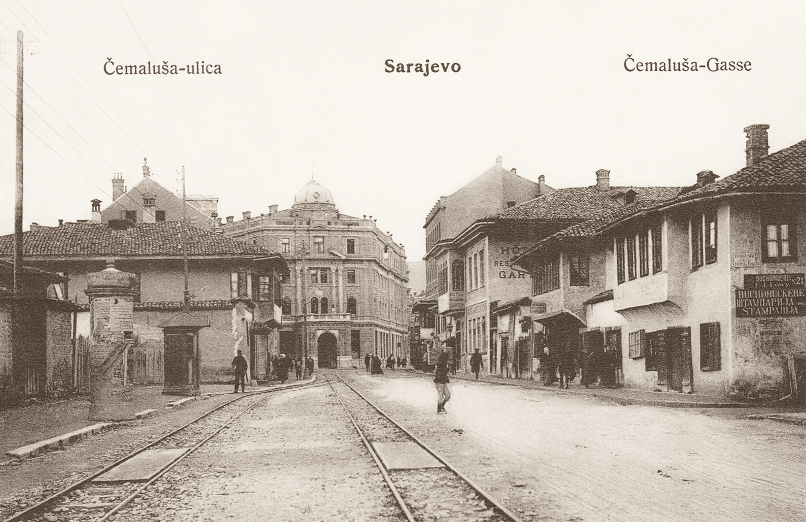 The main street in Sarajevo around 1900